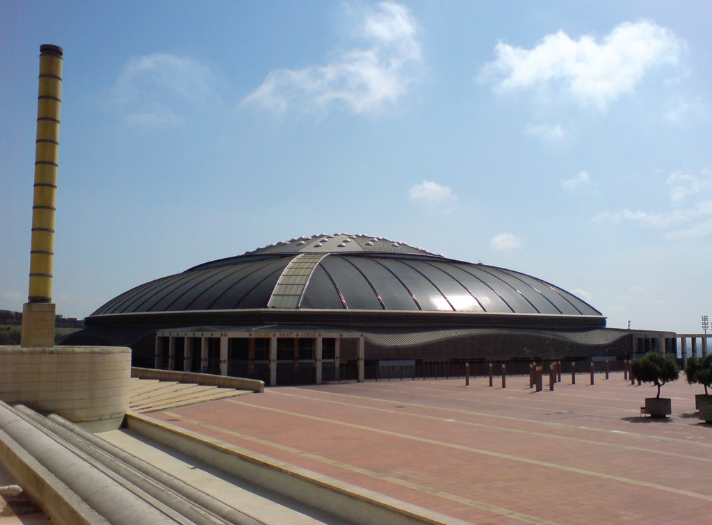 Image of Palau Sant Jordi Olympic sporting arena on Montjuïc, Barcelona, Spain.